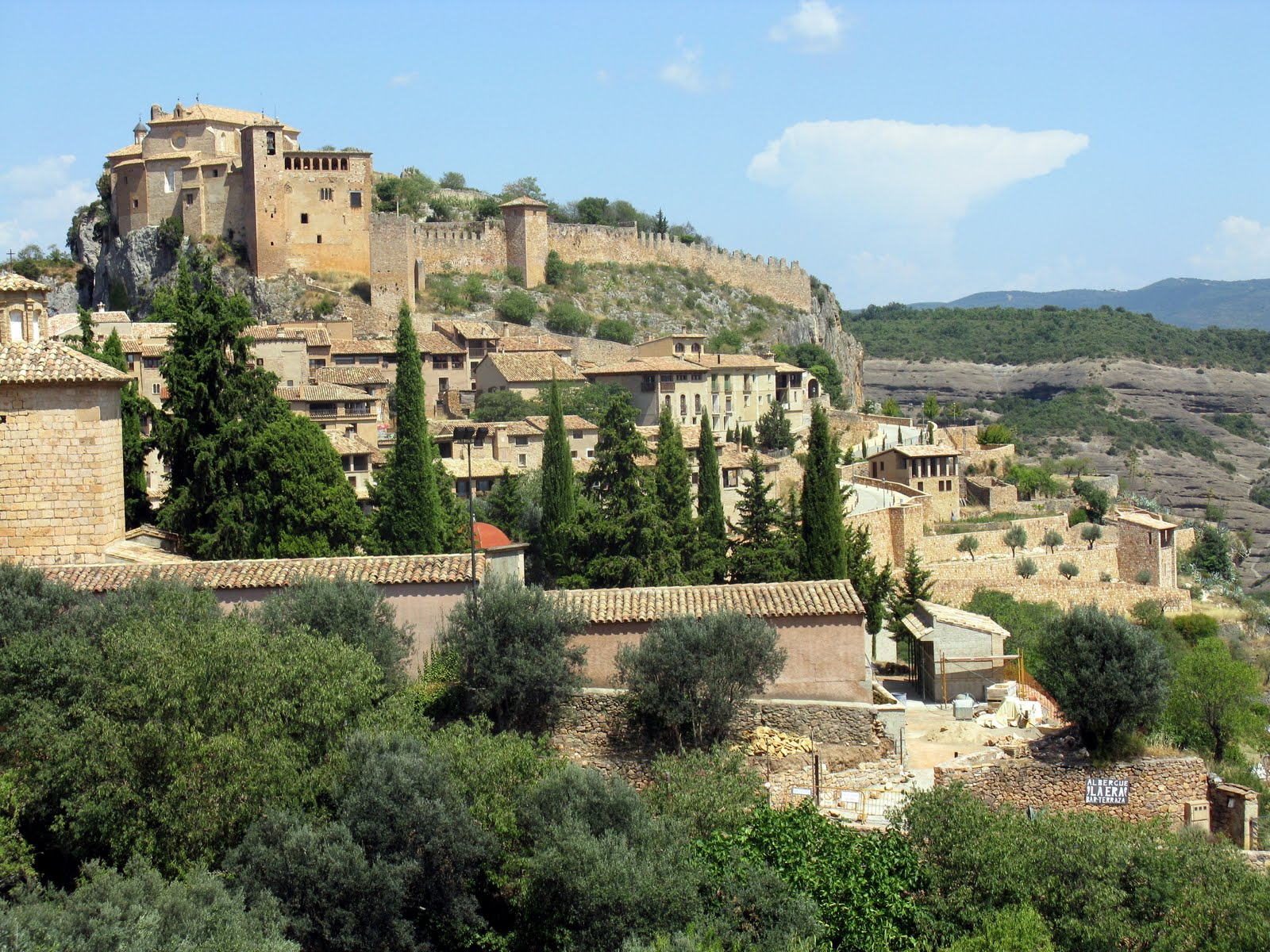 Alquézar